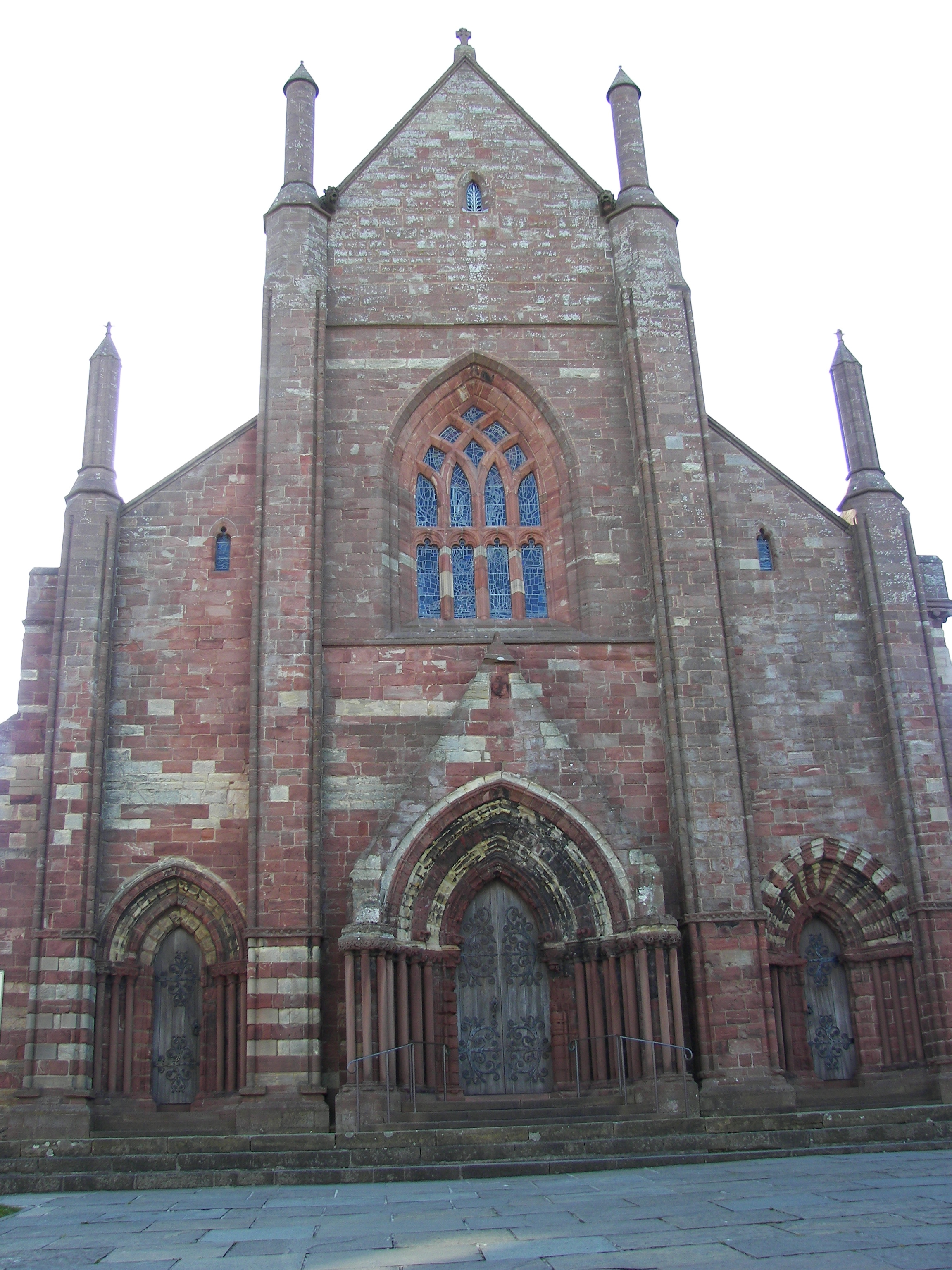 St. Magnus Cathedral in Kirkwall, Scotland.